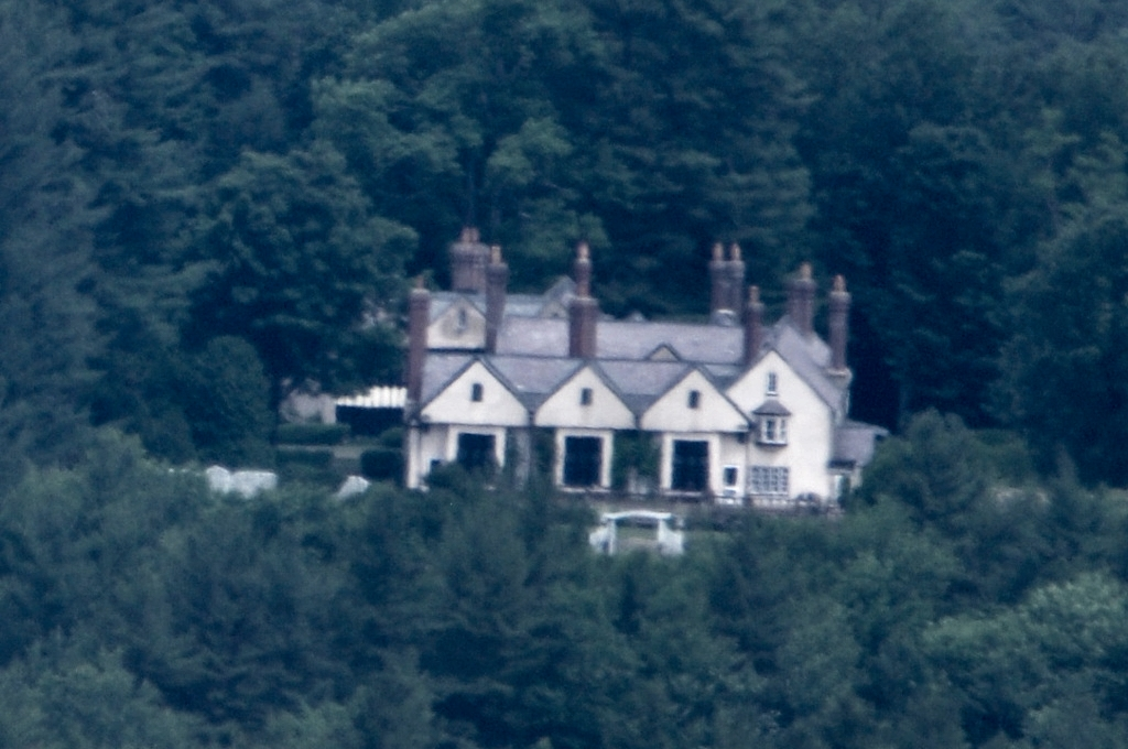 Fasnacloich, Harrisville, New Hampshire. Photo was taken from Mount Monadnock (several miles away).